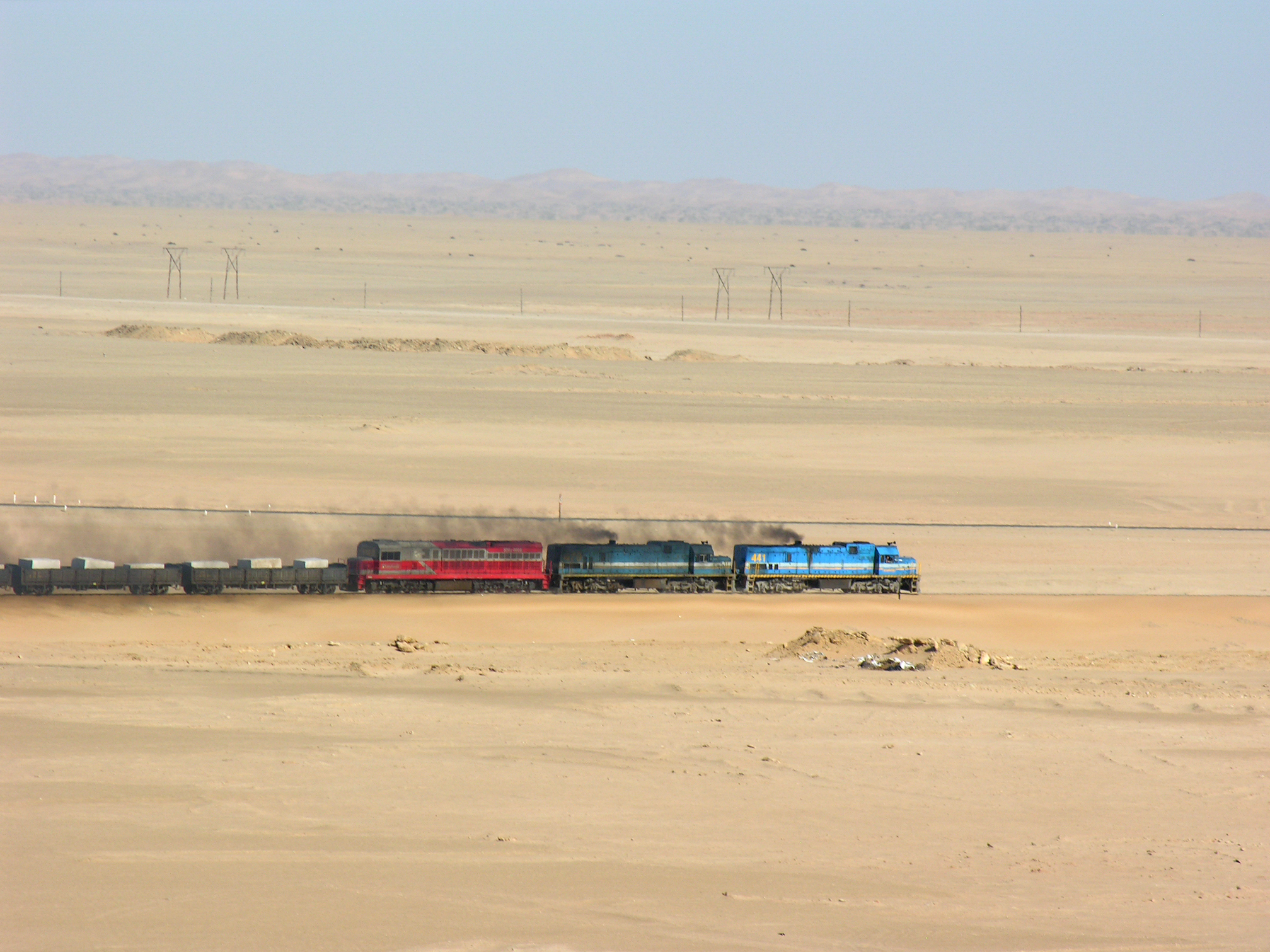 Namibia, goods train between Swakopmund and Walvisbay near Dune 7